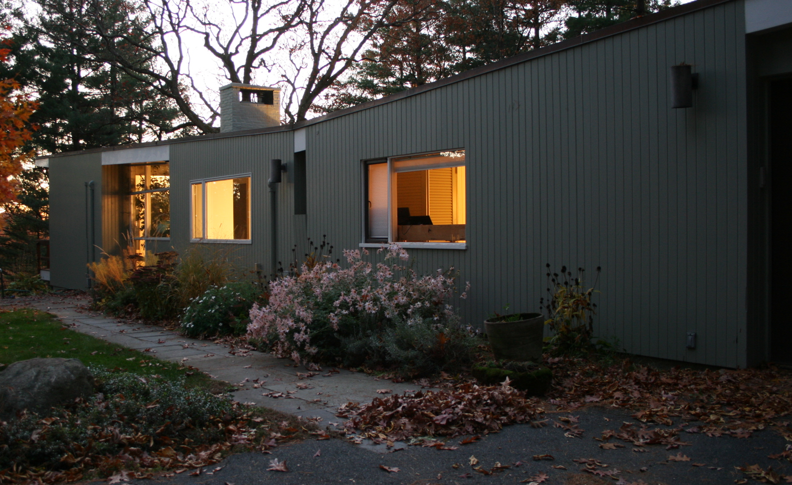 Six Moon Hill house designed by Richard Morehouse, Lexington, Massachusetts, United States.